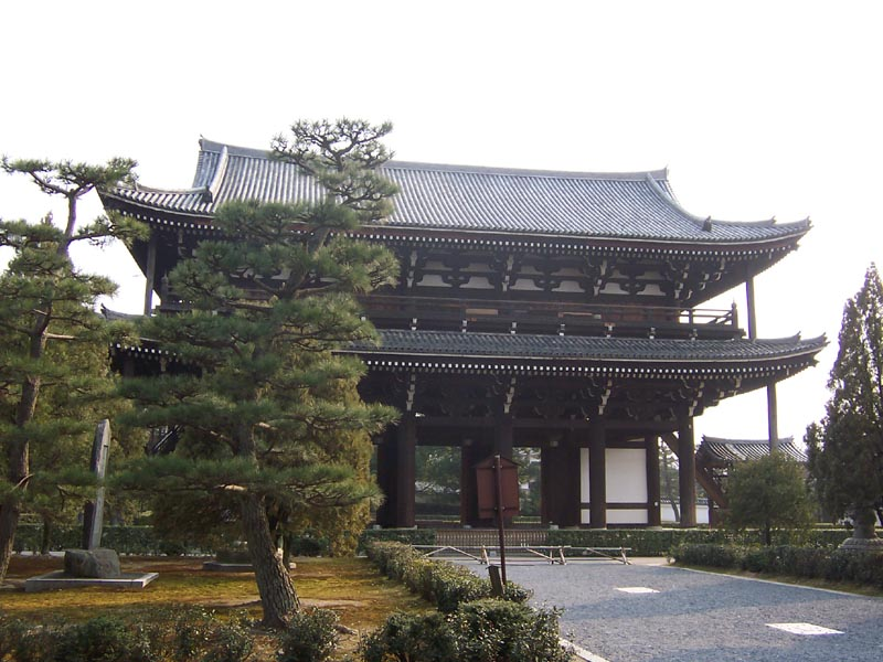 The main gate.